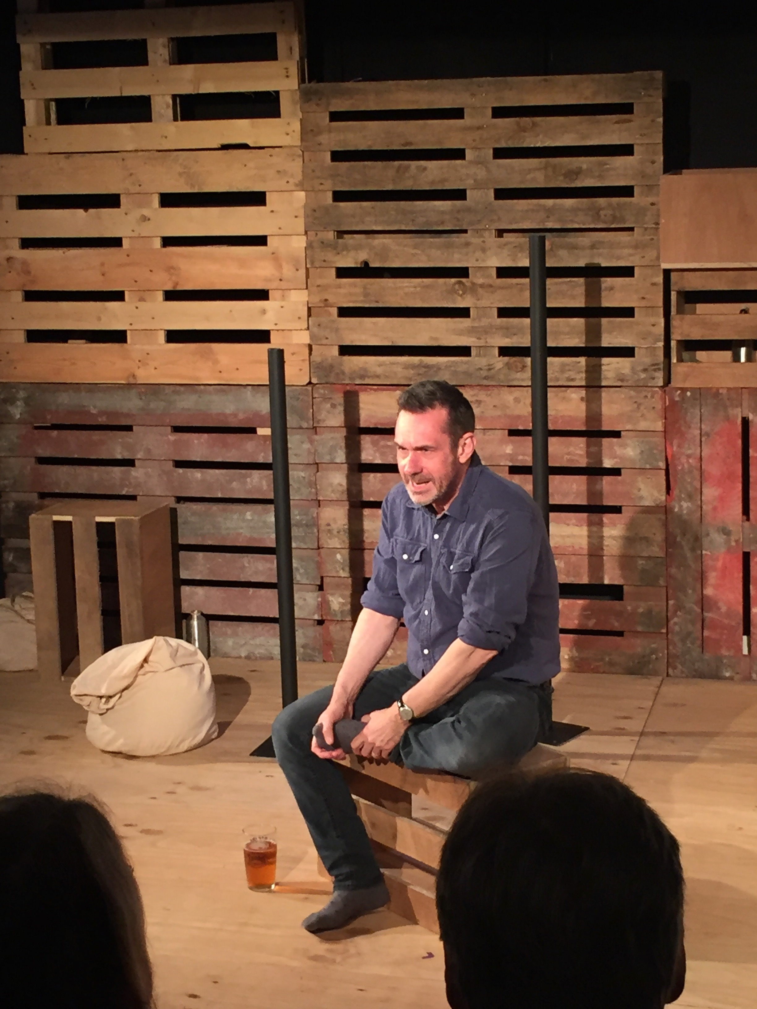 Paul Mason answers question about his play Divine Chaos of Starry Things at a session after the show on Sunday 7th of May 2017 at White Bear Theatre, Kennington, London